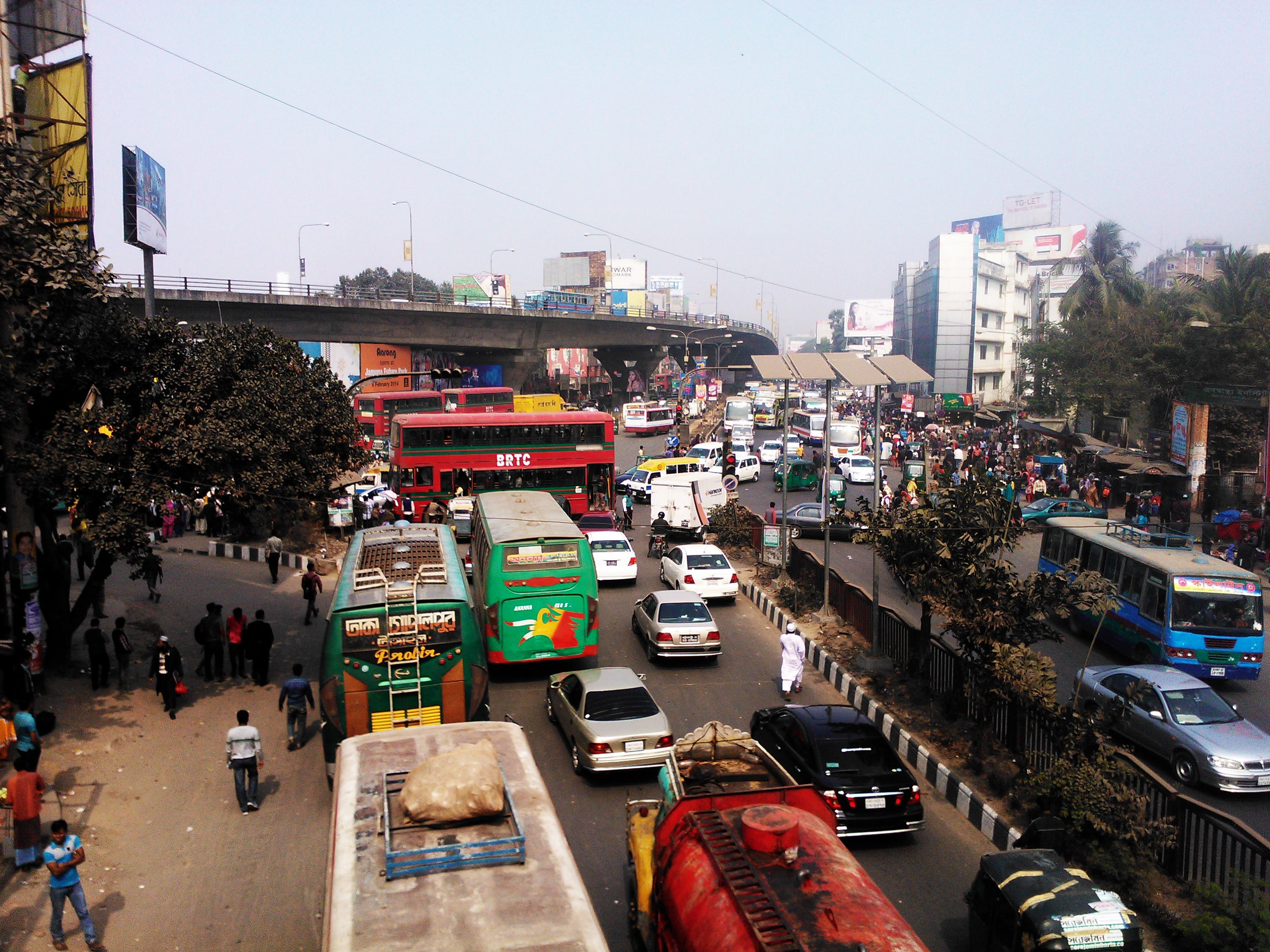 Mohakhali fly-over. Taken from foot over bridge.